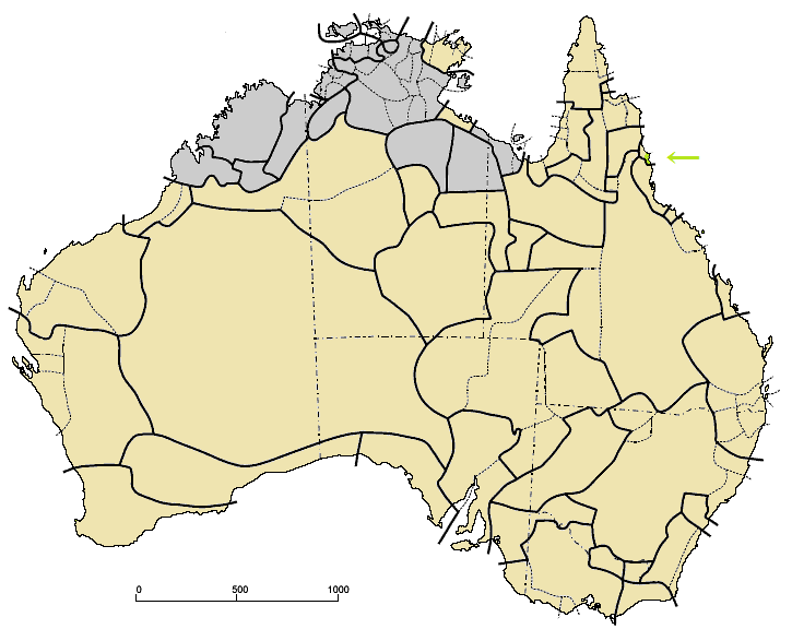 Yidiny (green, with arrow) among other Pama–Nyungan languages (tan)